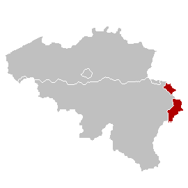 map of Belgium showing the autonomous "German Speaking Community" in red.